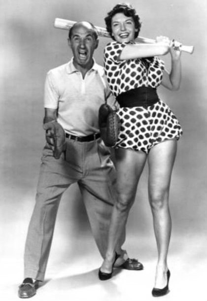 Publicity photo for the television program Saturday Night Revue. Ben Blue was the guest star on this episode.